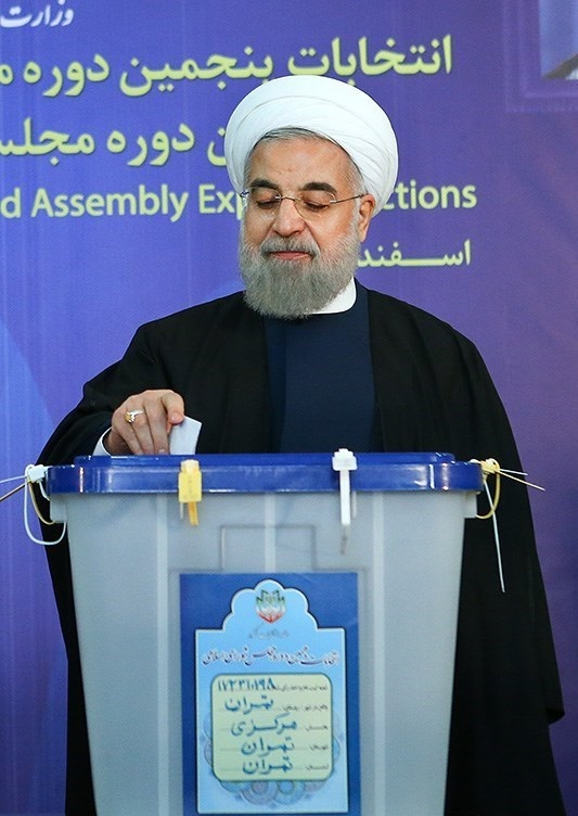 President Hassan Rouhani casting his vote for 2016 elections